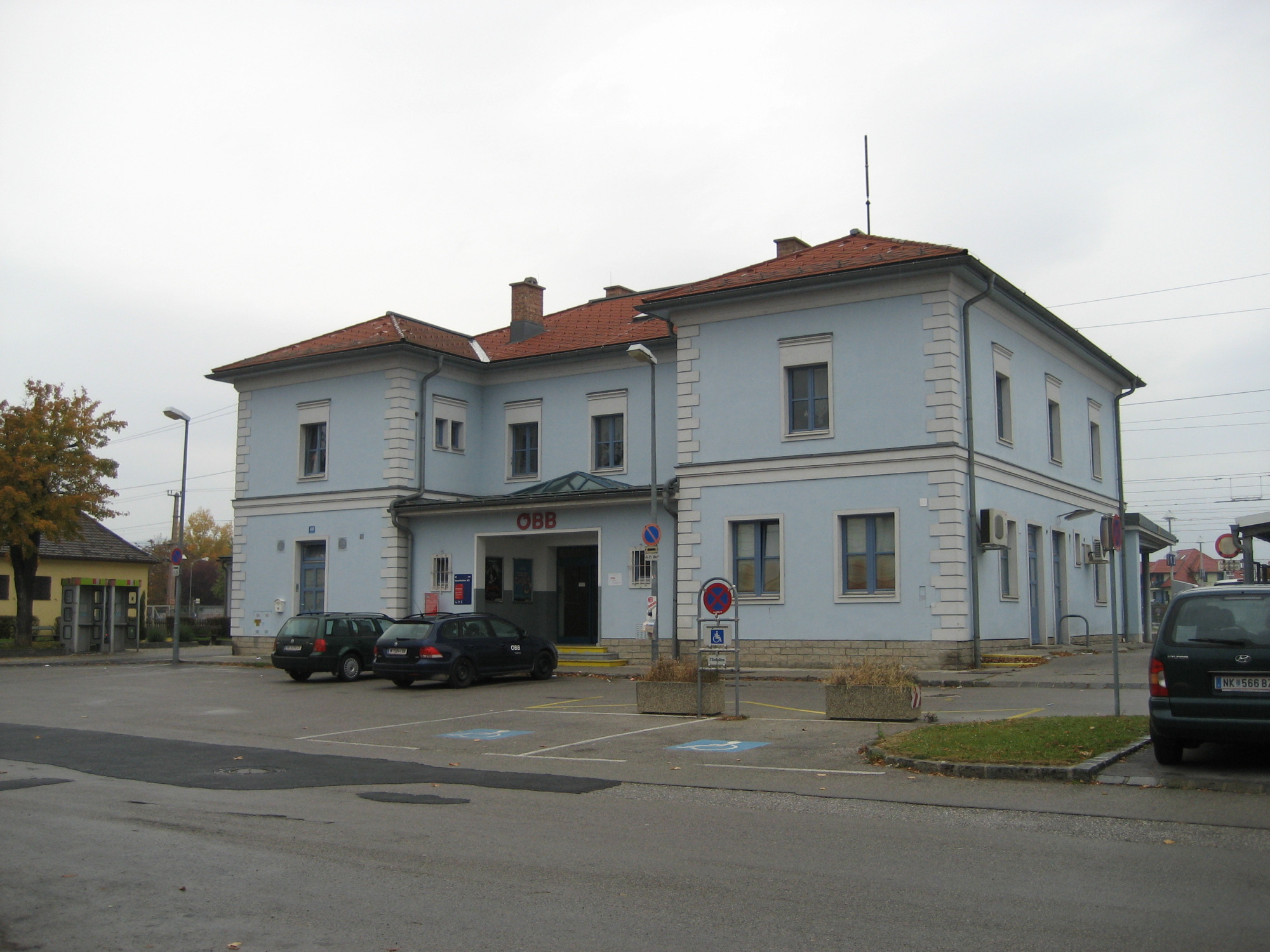 Neunkirchen NÖ train station in Lower Austria